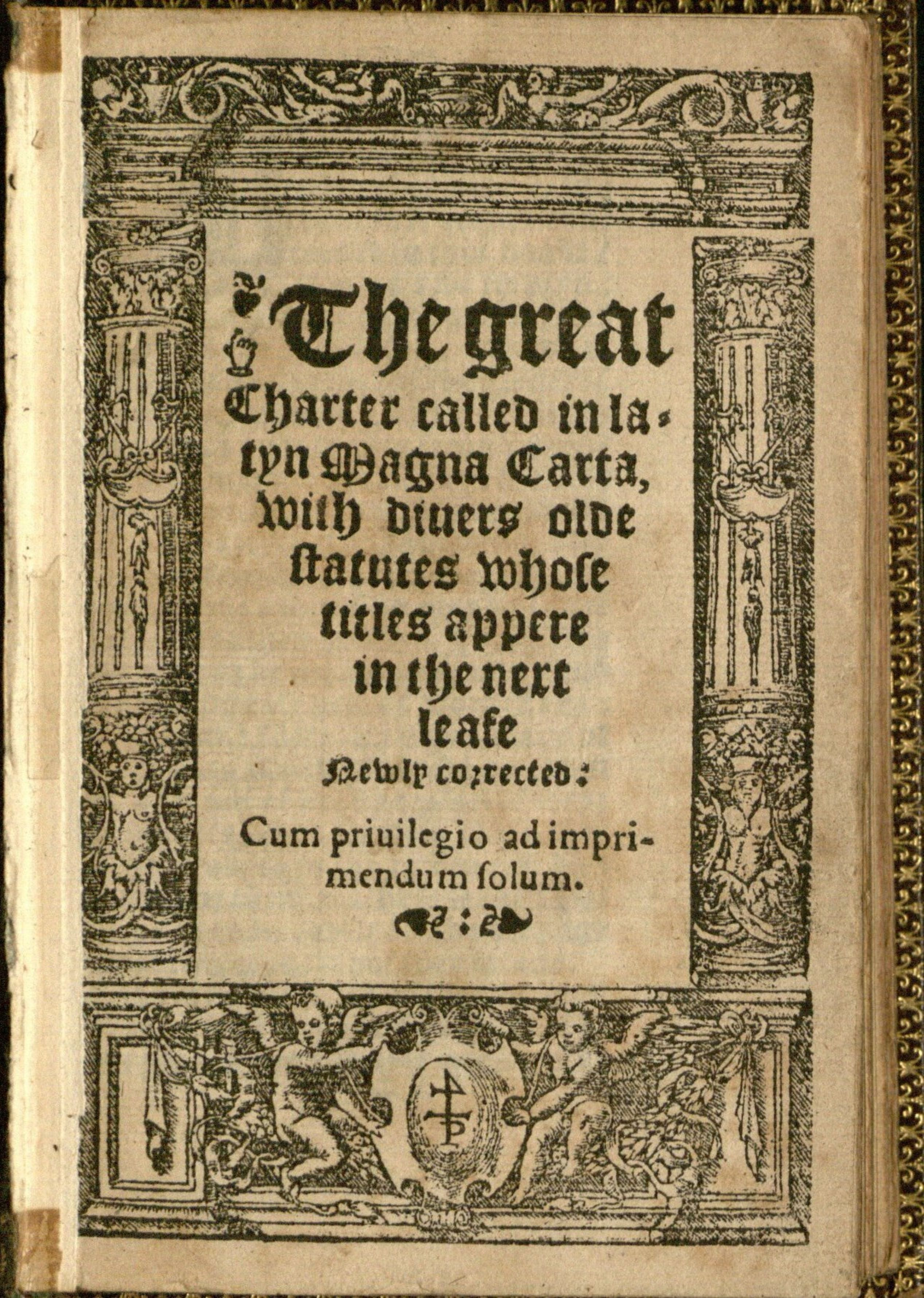 The Great Charter called in Latyn Magna Carta, with diuers olde statutes ... (Imprynted at London ...: By Thomas Petyt, 1542)